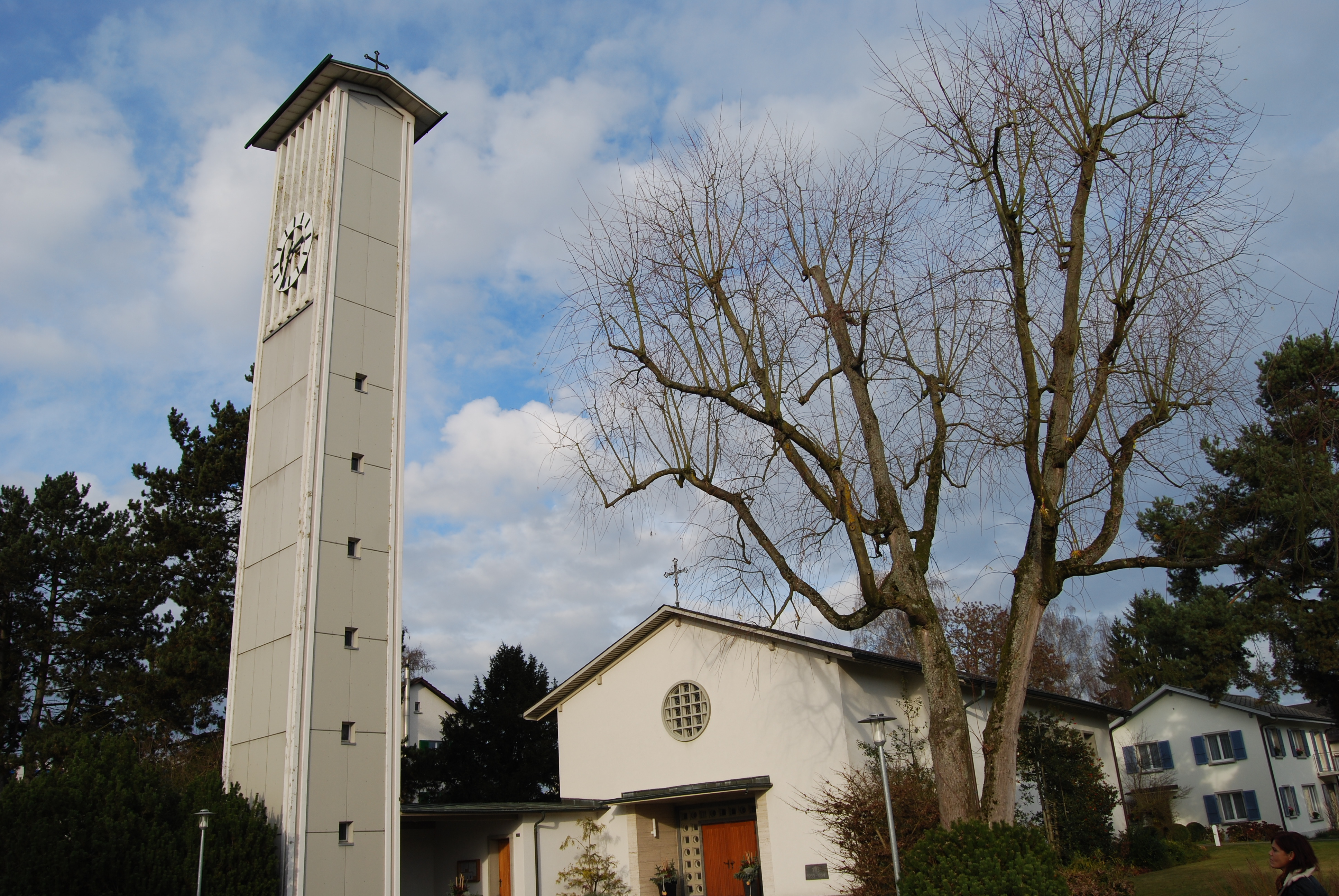 Catholic Church of Herzogenbuchsee, canton of Bern, Switzerland